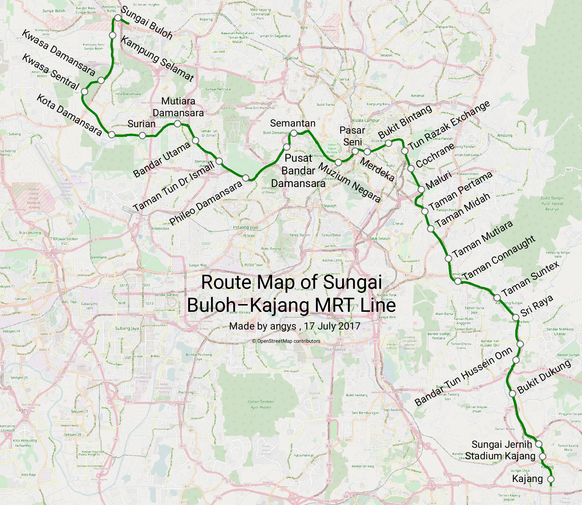 map of MRT SBK Line. Background map provided by .